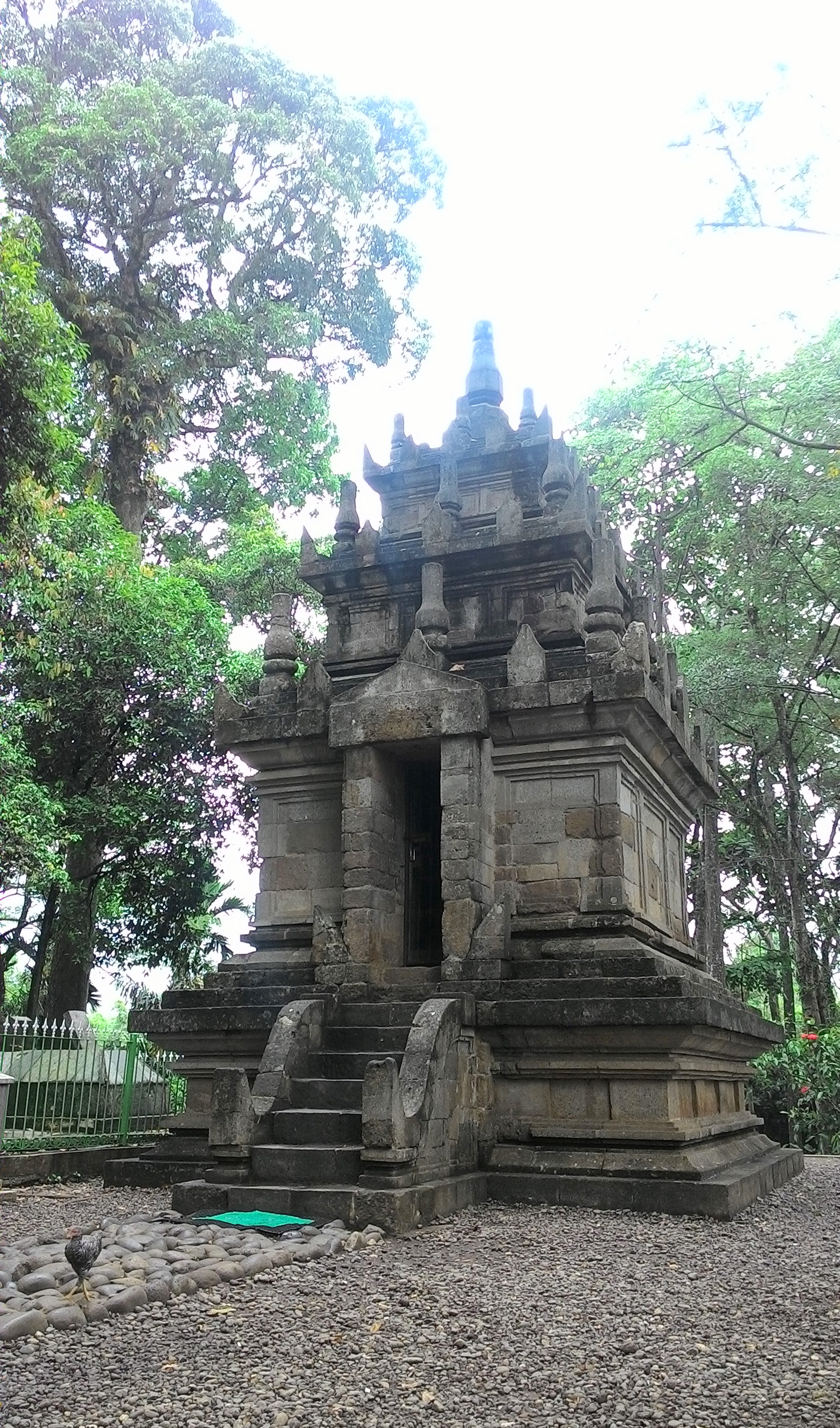 Candi Cangkuang, 8th century Shivaist Hindu temple, located in Leles, Garut Regency, West Java, Indonesia.